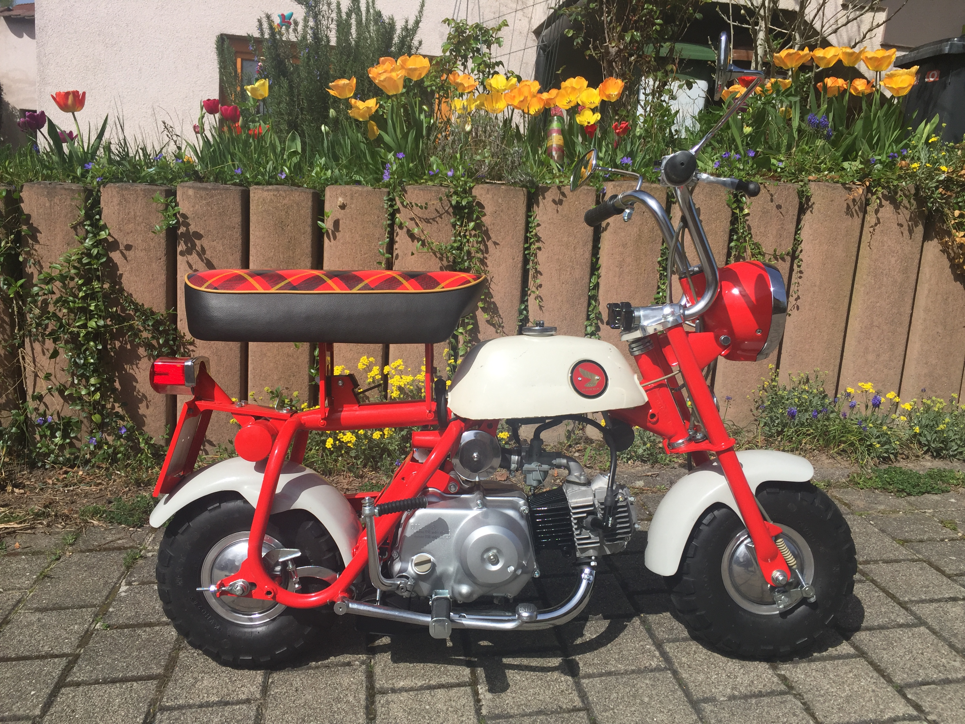 This MC is very compact and pretty fast